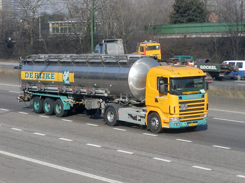 This picture can be found in gallery Scania AB